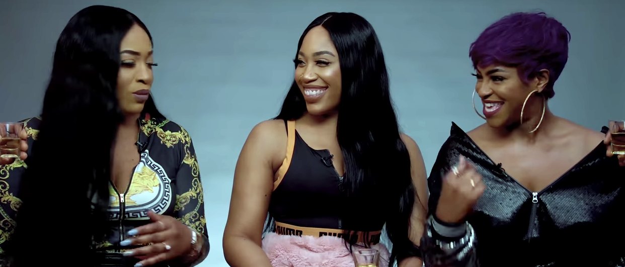 3 of SHiiKANE on the TGIF show on NdaniTV in Deember 2018